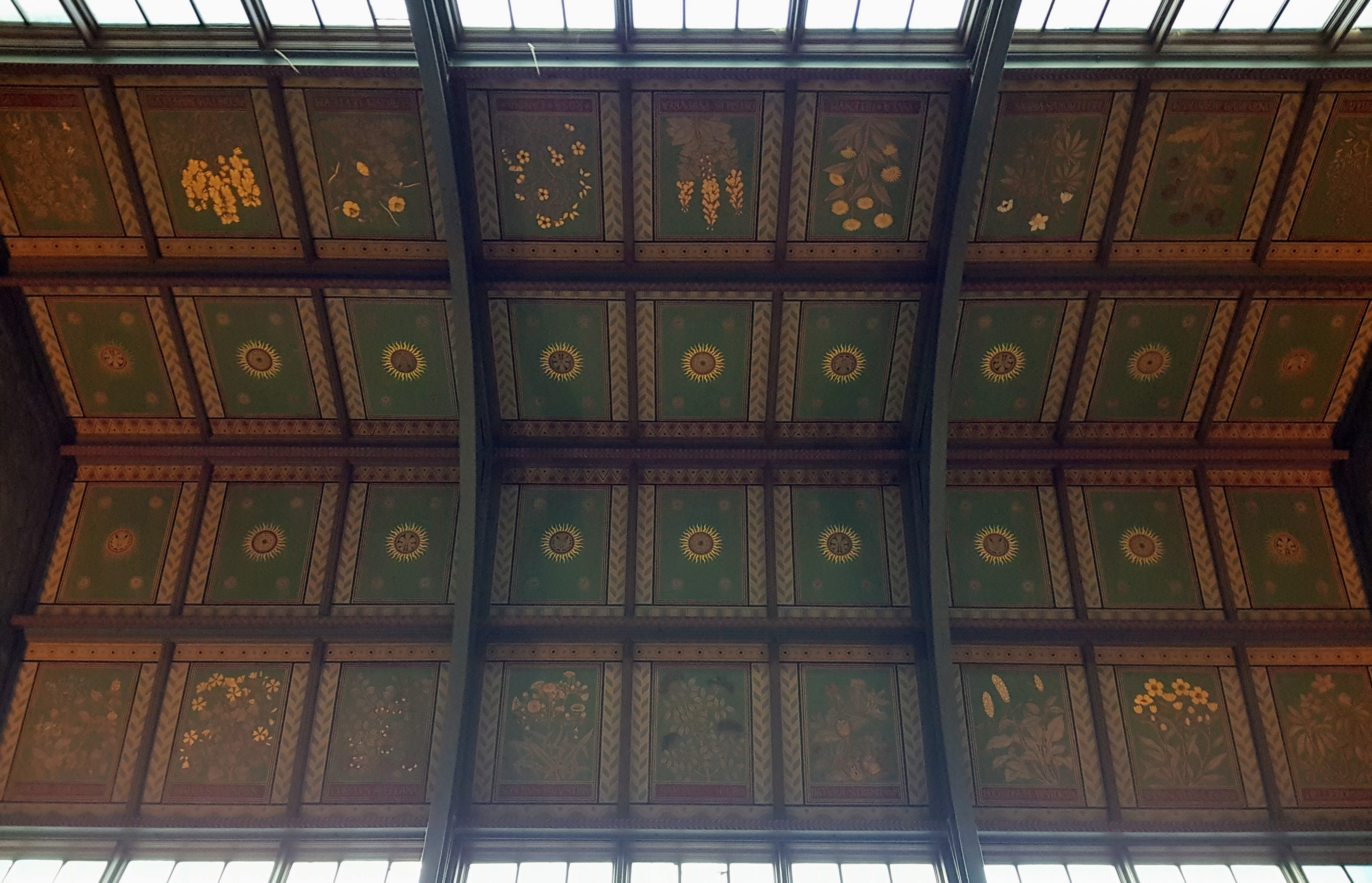 North Hall, Natural History Museum, London, January 2019 – Diospyros embryopteris panel